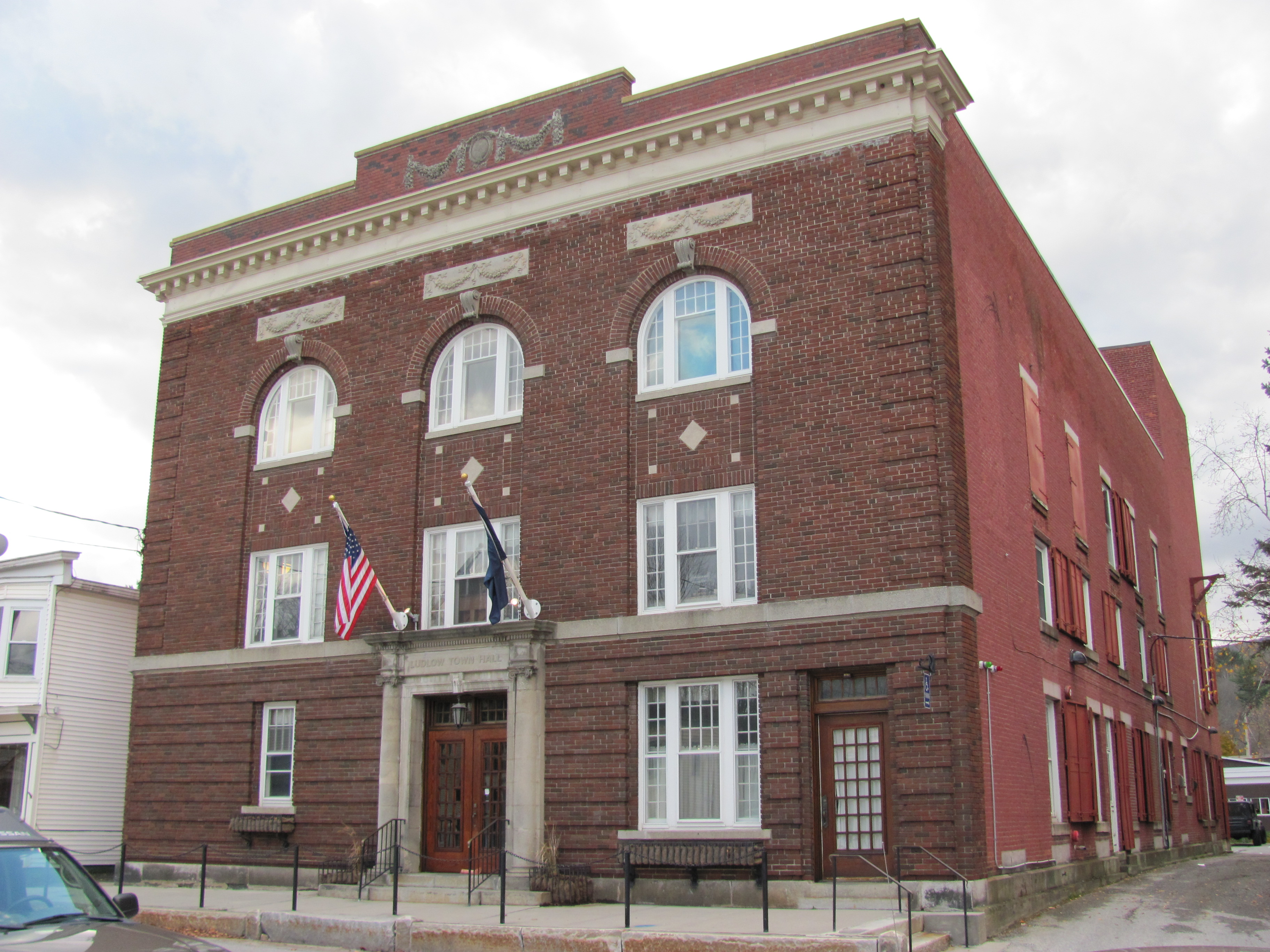 Ludlow Town Hall, part of the Ludlow Village Historic District, Main St., Depot St. Ludlow, Vermont.